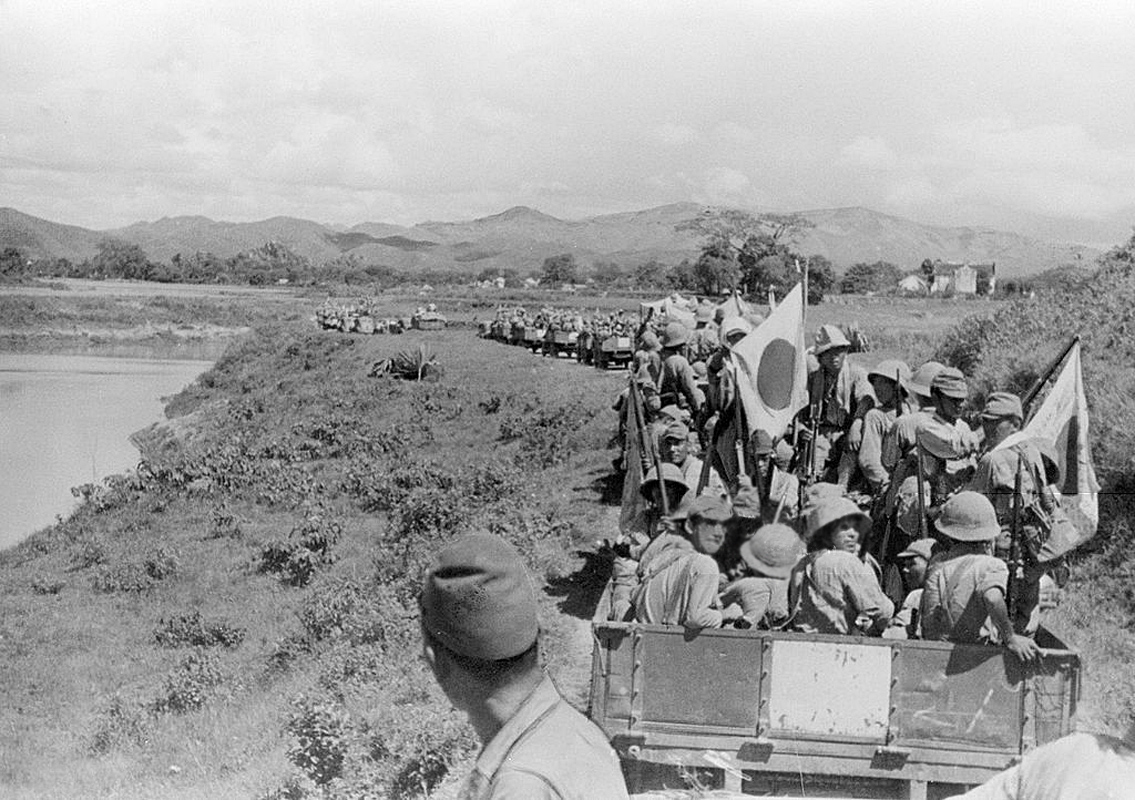 Japanese Imperial Army soldiers advance to Lang Son, in September 1940 in French Indochina.